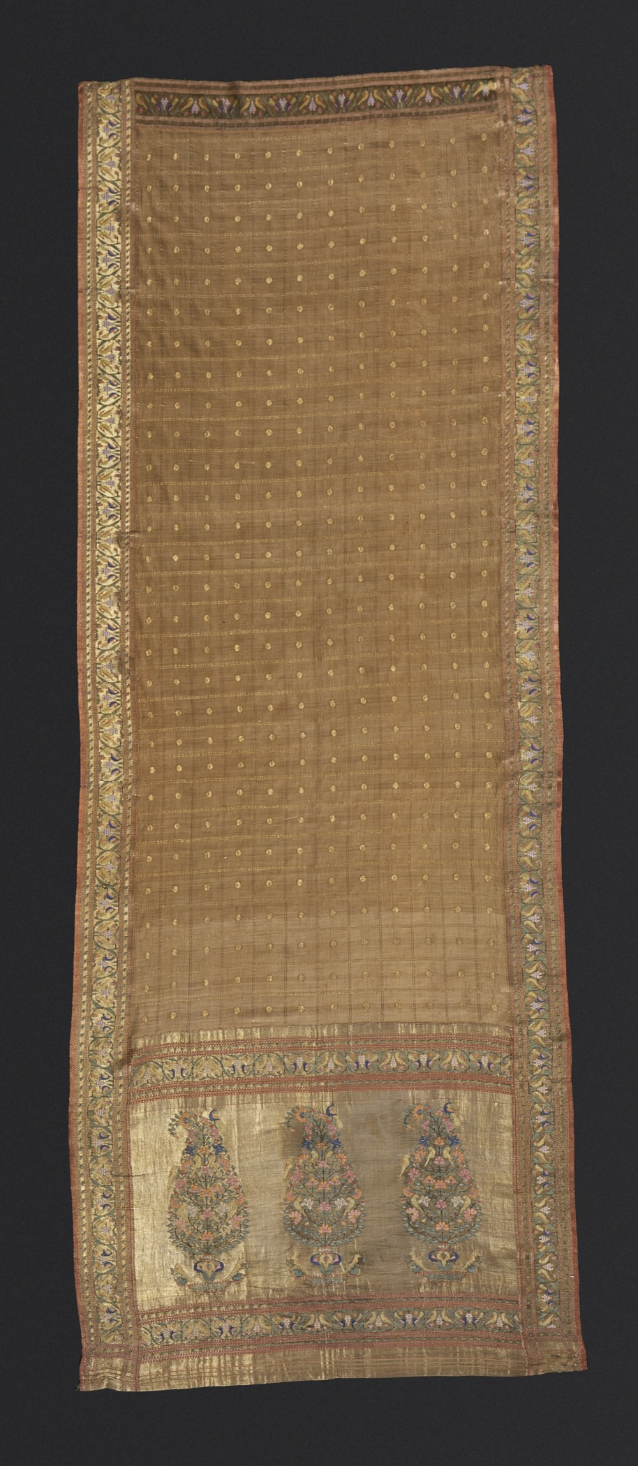 India, probably Maharashtra, Paithan or Madhya Pradesh, Chanderi, 19th century Costumes; ceremonial or ritual dress Cotton, silk and metallic thread; plain weave with supplementary warp and weft patterning and double interlock tapestry 126 1/2 x 48 1/4 in. (321.31 x 122.56 cm) From the Nasli and Alice Heeramaneck Collection, Museum Associates Purchase (M.75.4.23) Costume and Textiles